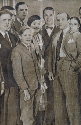 Tadeusz Olsza on tour at Paramount, Joinville, France while filming "Glos Serca" circa 1930